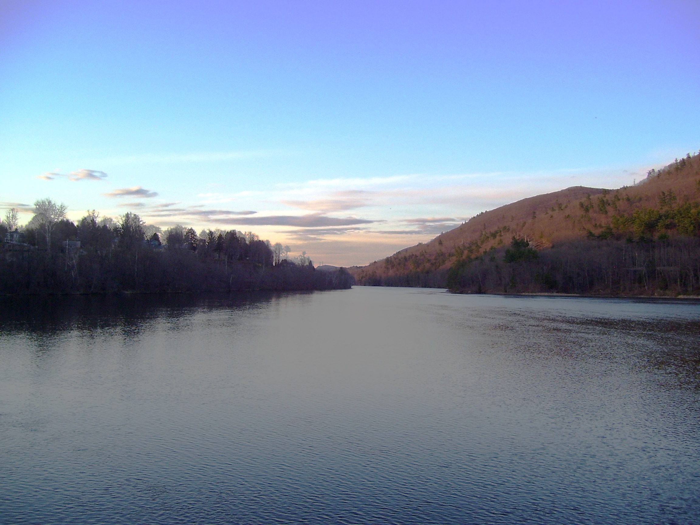 The Connecticut River as seen from the bridge between Brattleboro, Vermont and Hinsdale, New Hampshire, looking north.